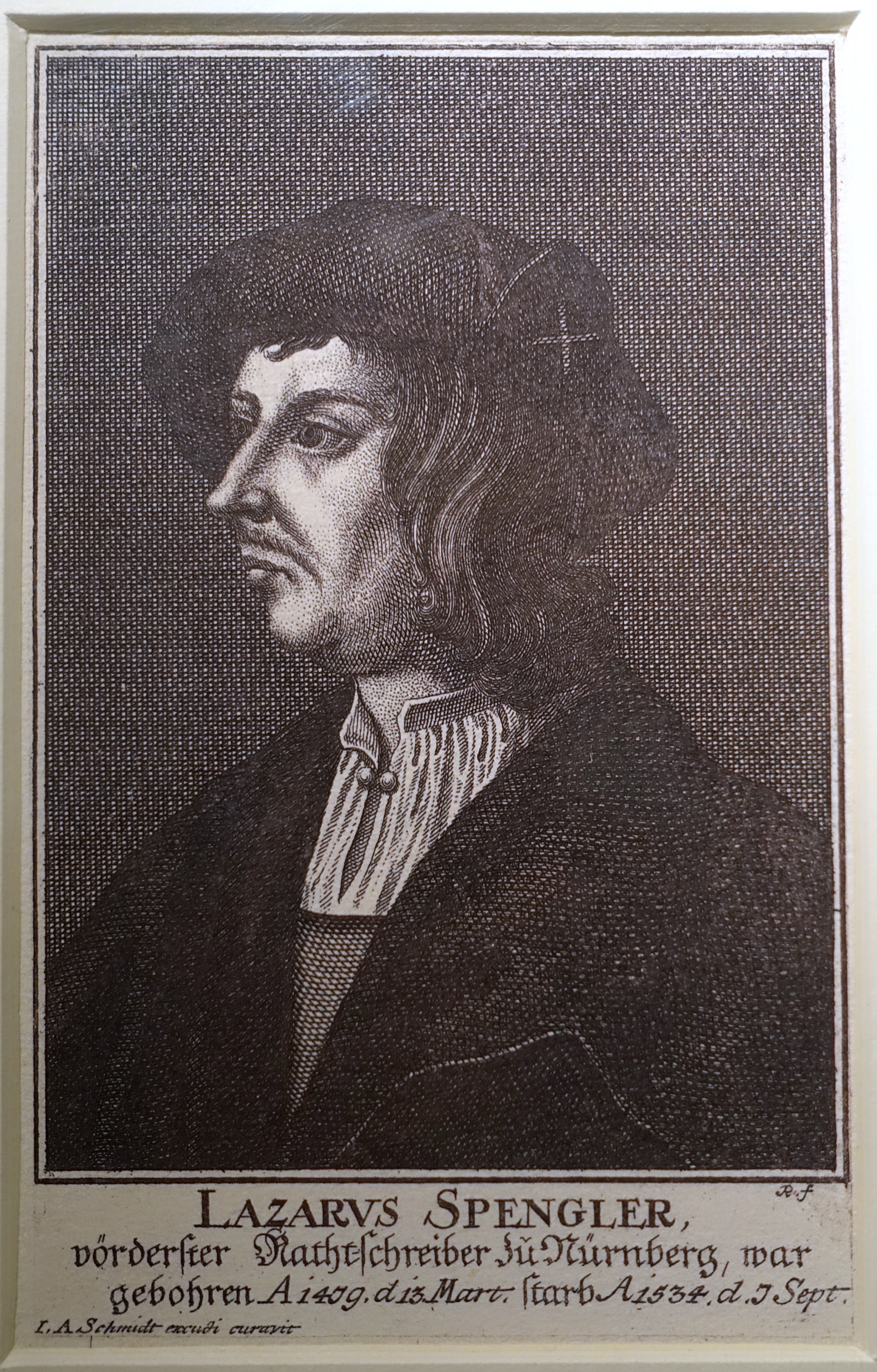 Exhibit in the Stadtmuseum Fembohaus - Nuremberg, Germany.